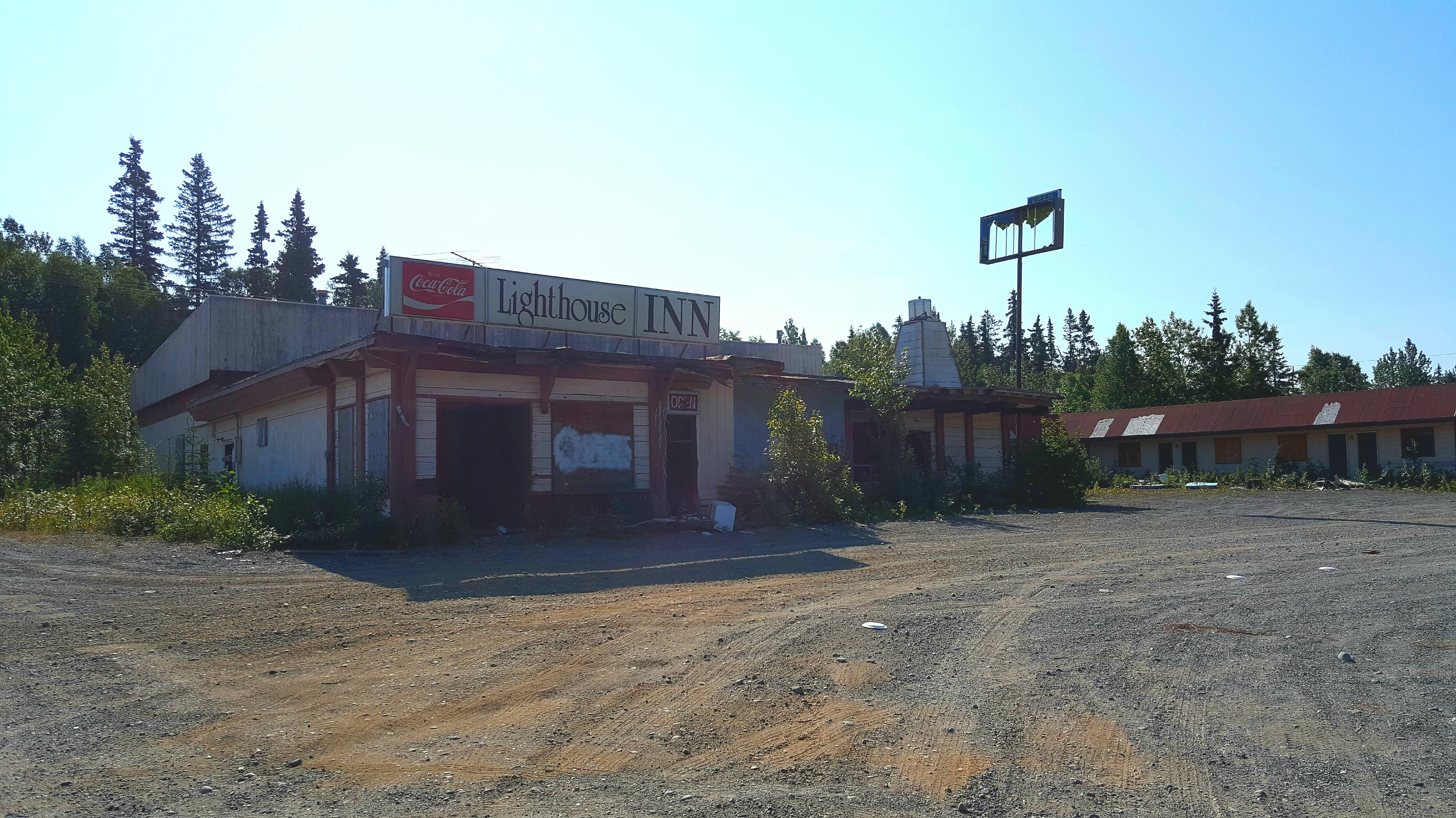 The Lighthouse Inn, an abandoned motel in Nikiski, Alaska that they just won't tear down for some reason.